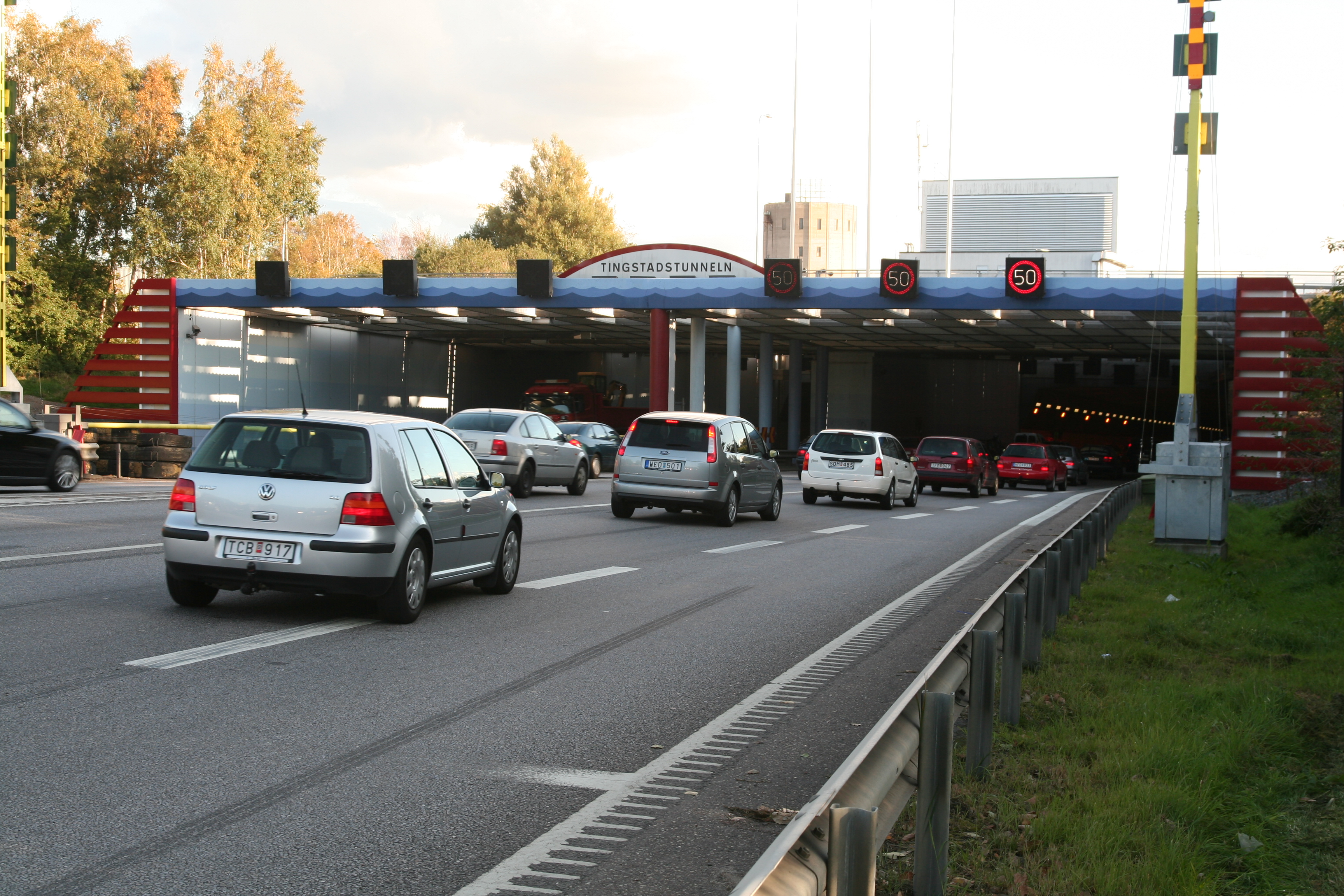 The northern opening of Tingstadstunneln in Göteborg.